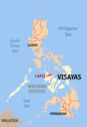 Map of the Philippines showing the location of Capiz